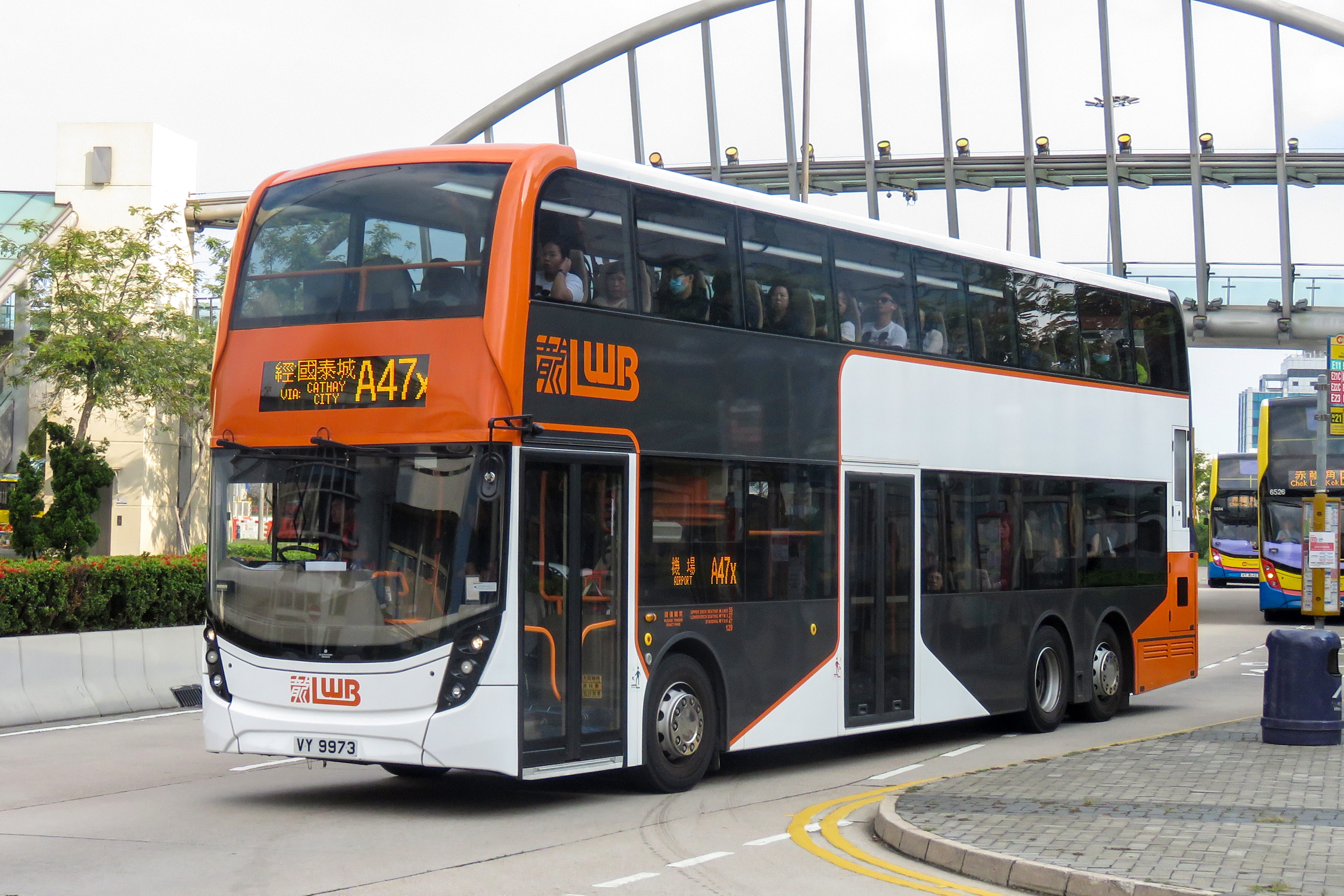 This A47X departs from Tai Po (Fu Heng) at 07:00 and serves Pak Shek Kok, Ma Liu Shui and Cathay City. More like a commuter bus...